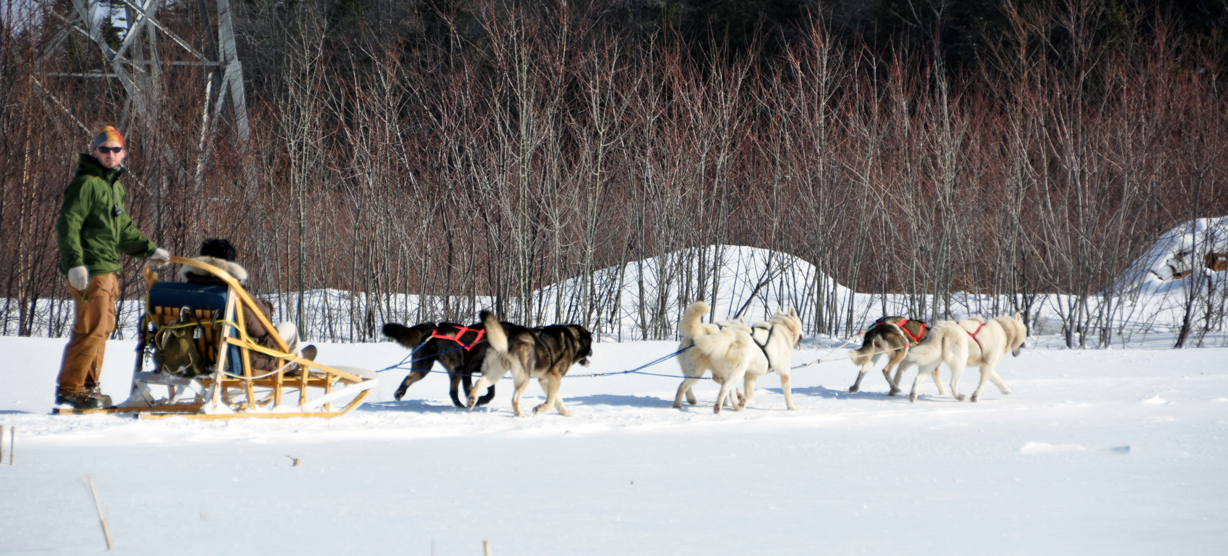 dog sledding Quebec winter 2010